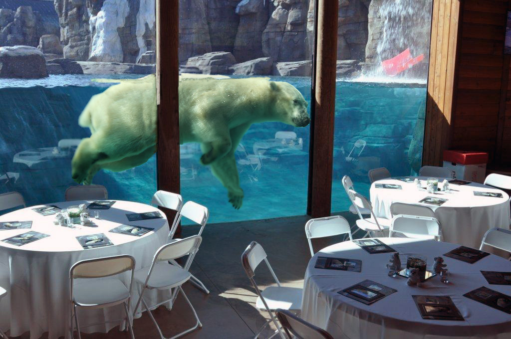 Kansas City Zoological Park